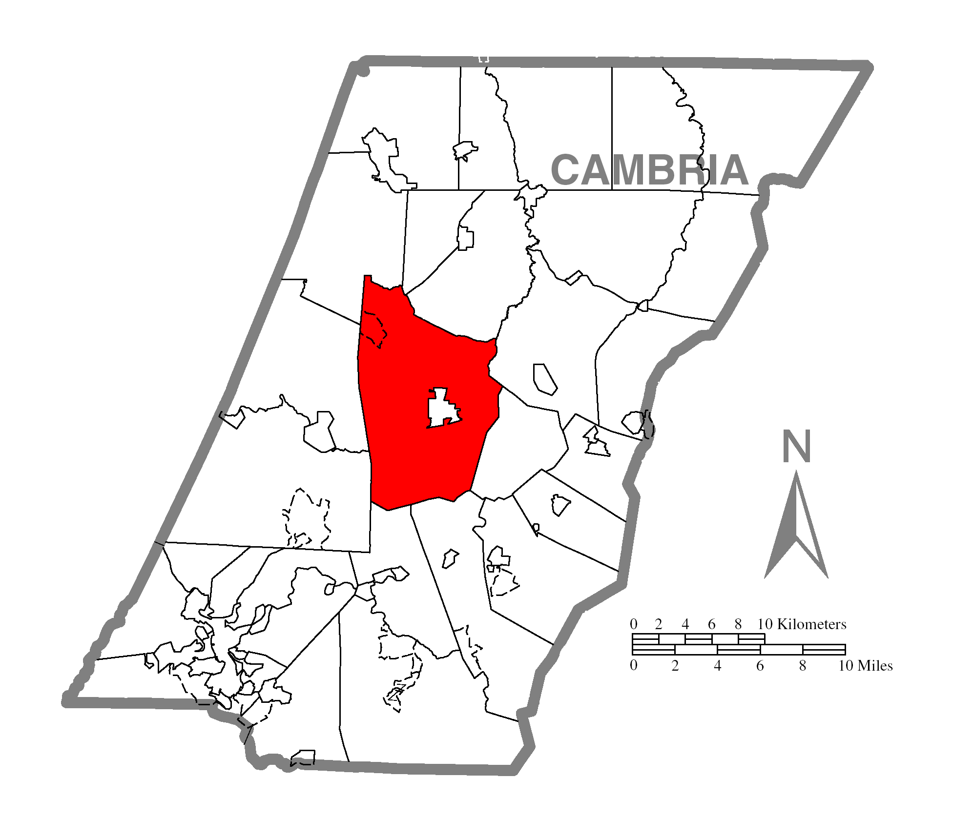 A map of Cambria County showing Cambria Township, Pennsylvania (alternate) highlighted on the map.